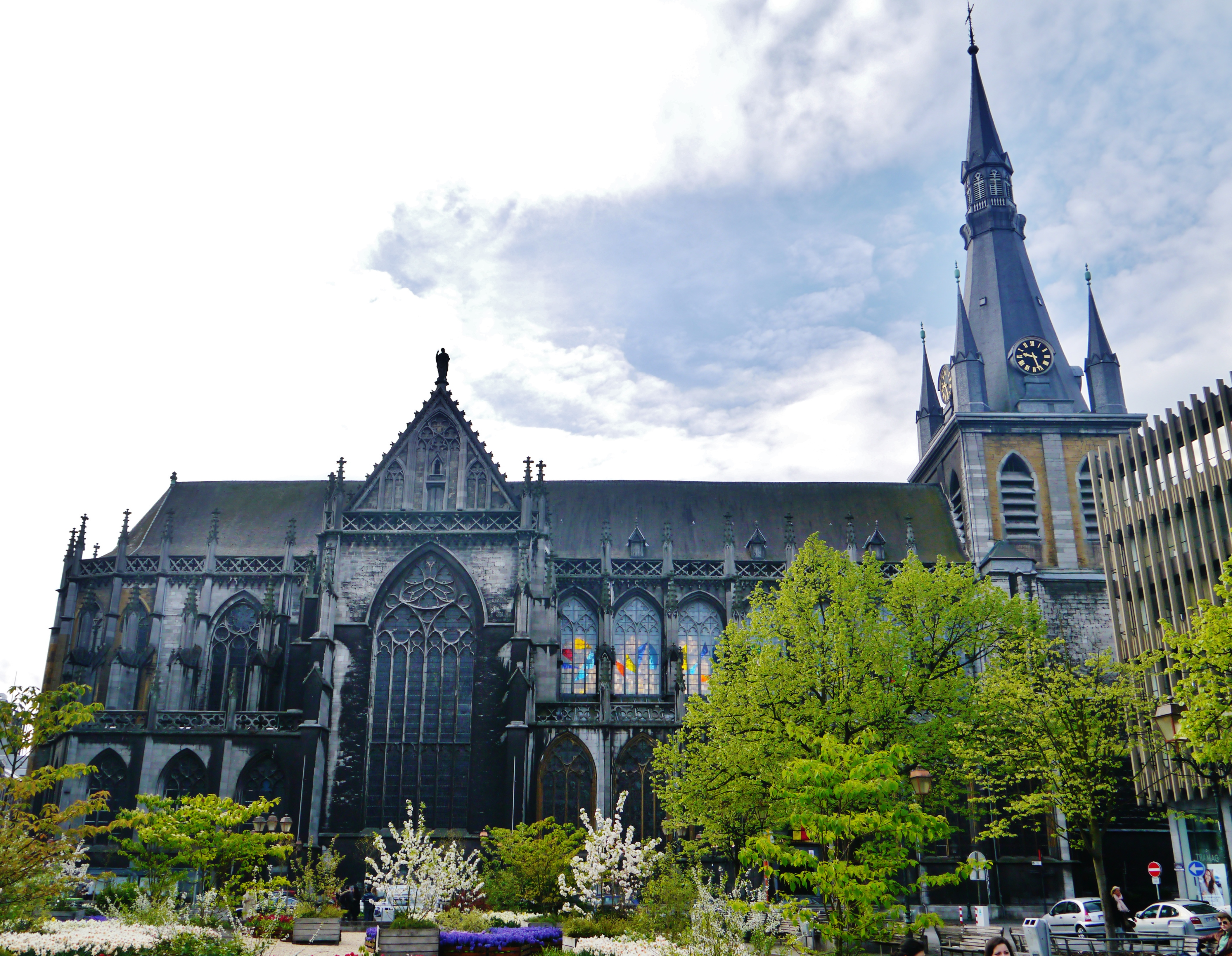 Cathedral St. Paul, Liège, Province of Liège, Wallonia, Belgium